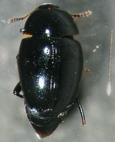 adult Cyparium thorpei [to be confirmed]